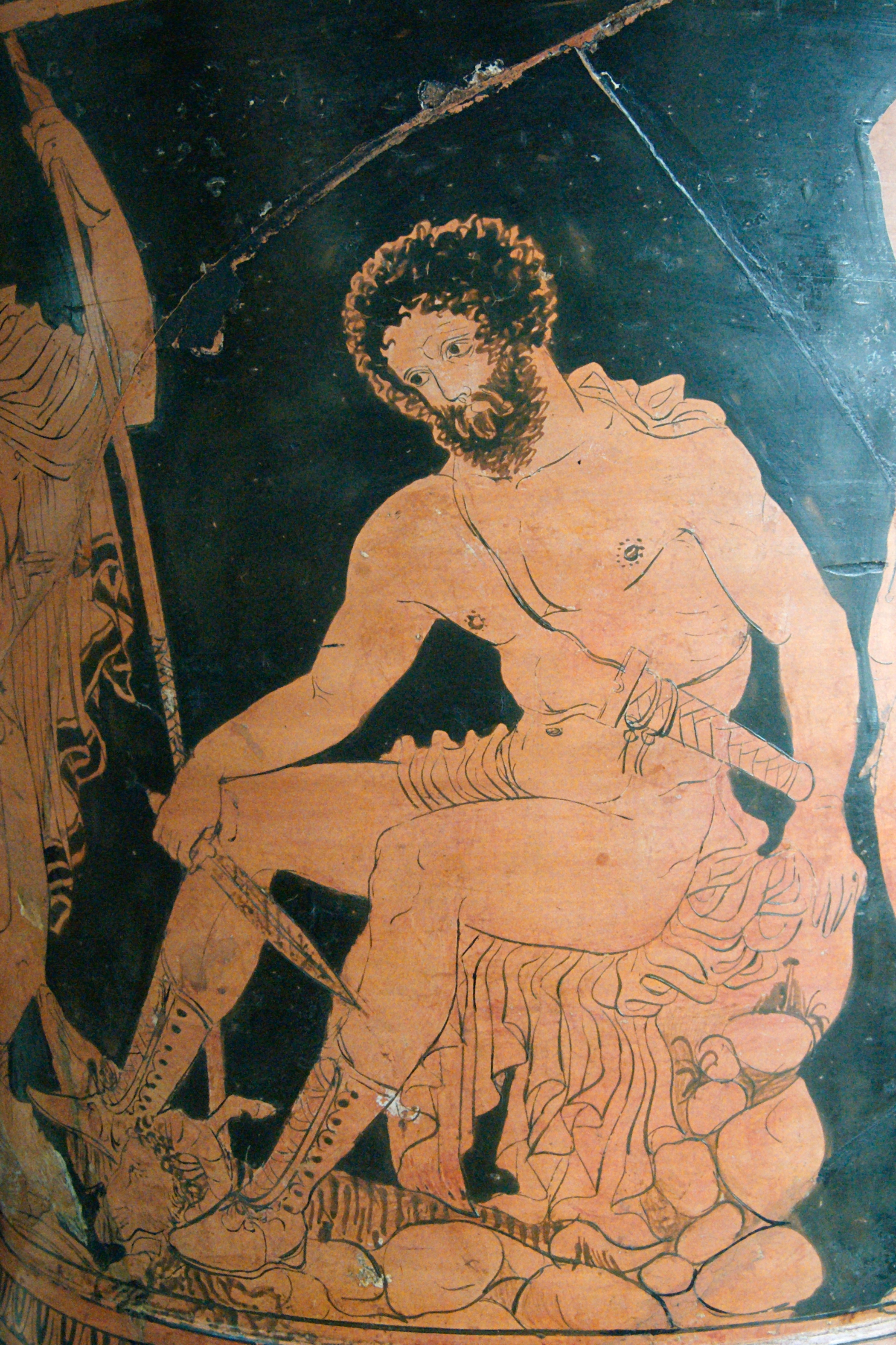 Odysseus consulting the shade of Tiresias. Side A from a Lucanian red-figured calyx-krater, 4th century BC.